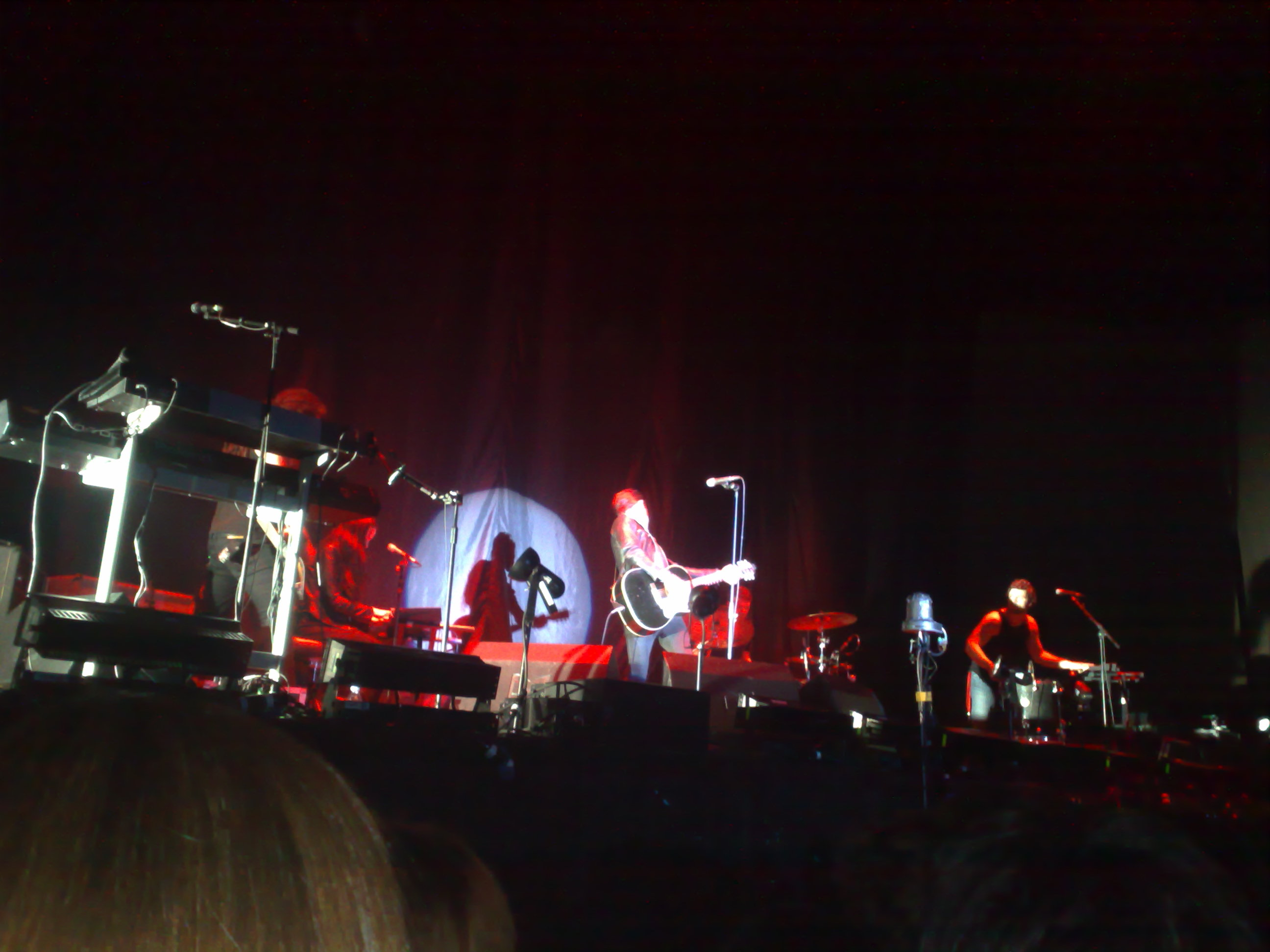 Openning act, Jimmy Gnecco on stage on the a-ha concert in Madrid, 2010.